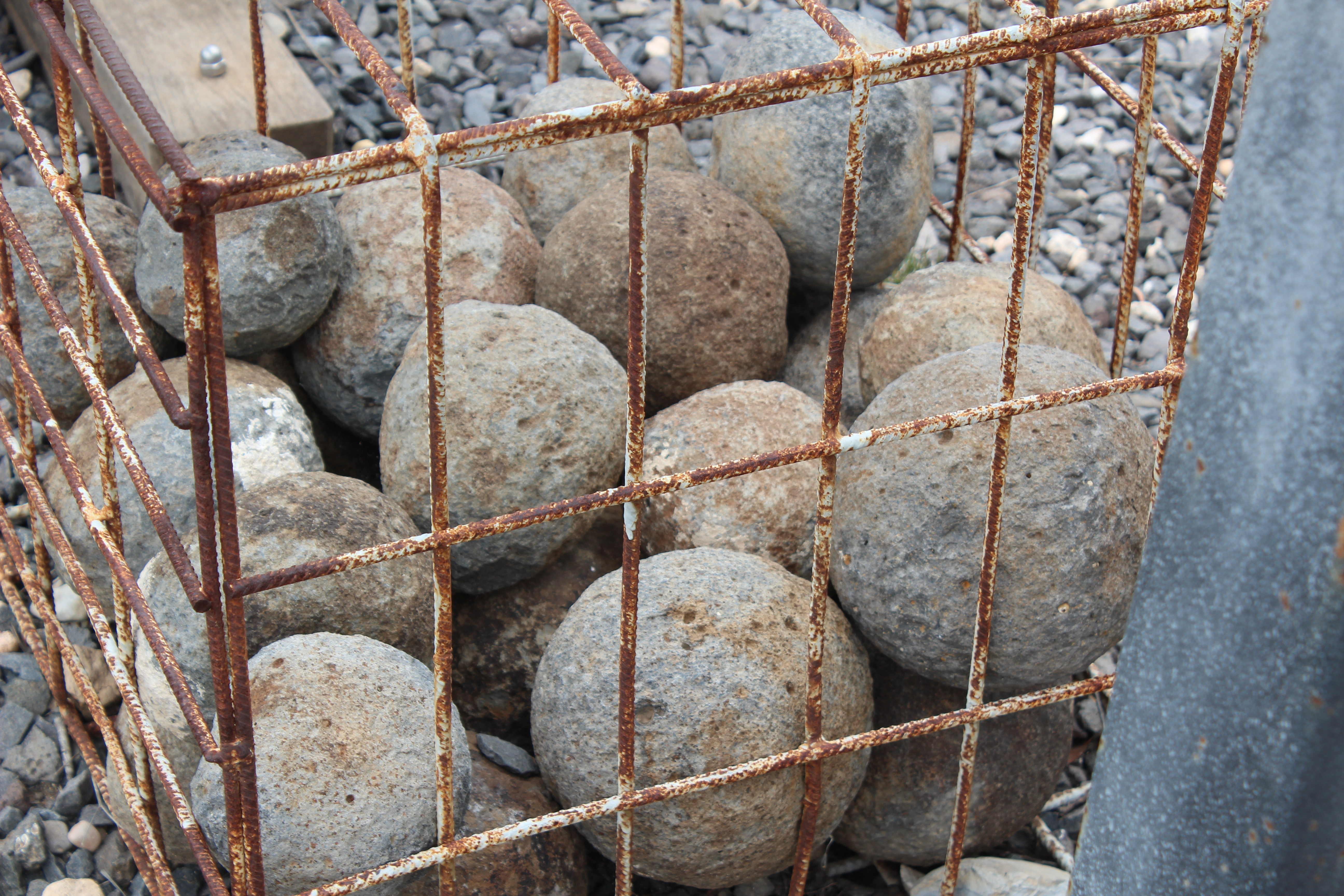 Round shots collected at Gamla, and used in the Roman ballistra